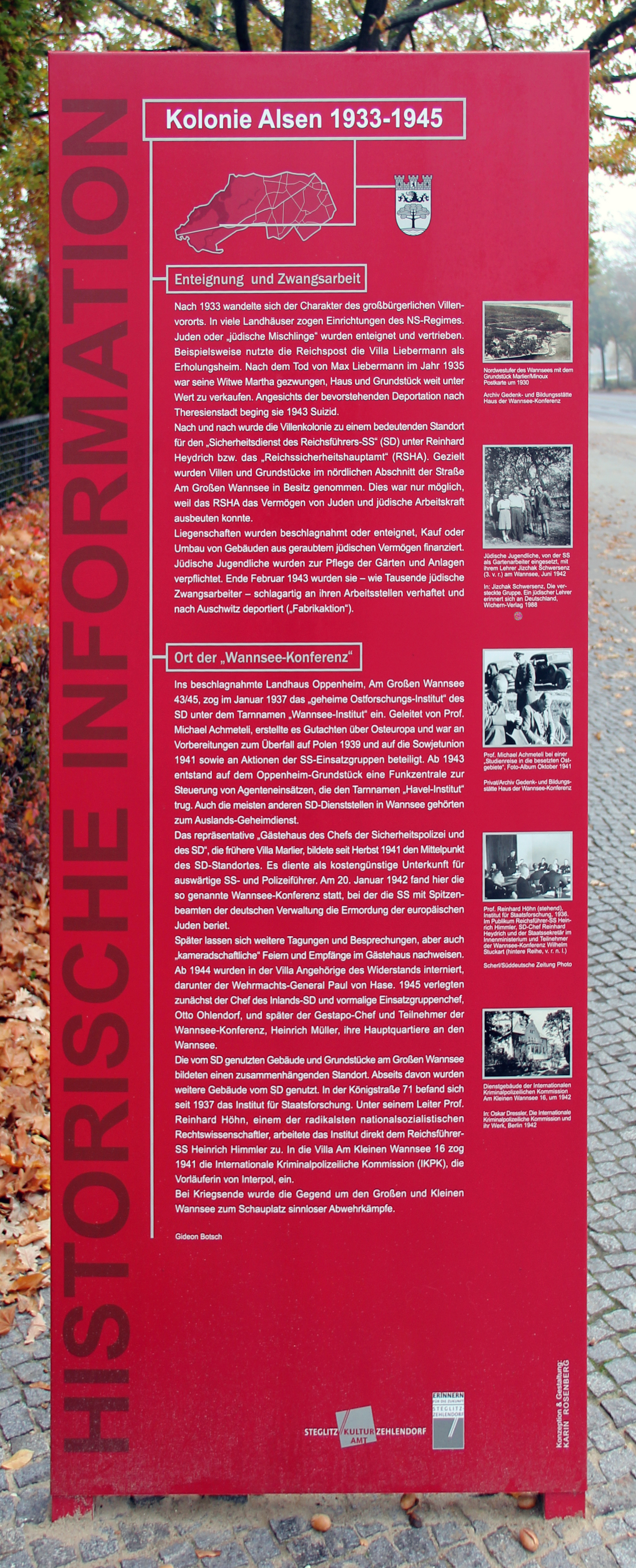 Memorial plaque, Kolonie Alsen, Königstraße 4B, Berlin-Wannsee, Deutschland